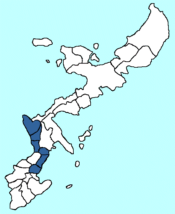 The location of Nakagami District in Okinawa.